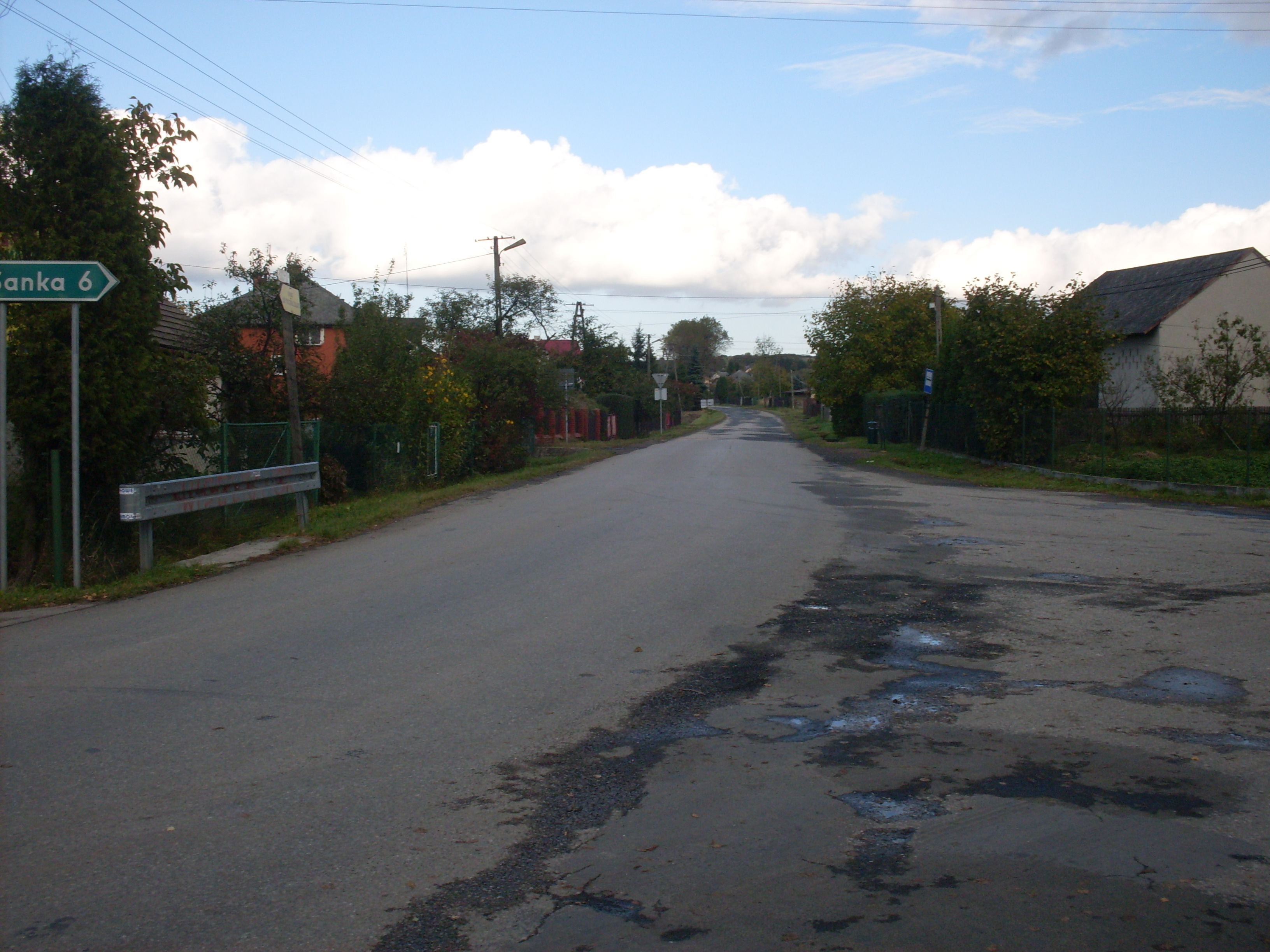 Zalas.Obora